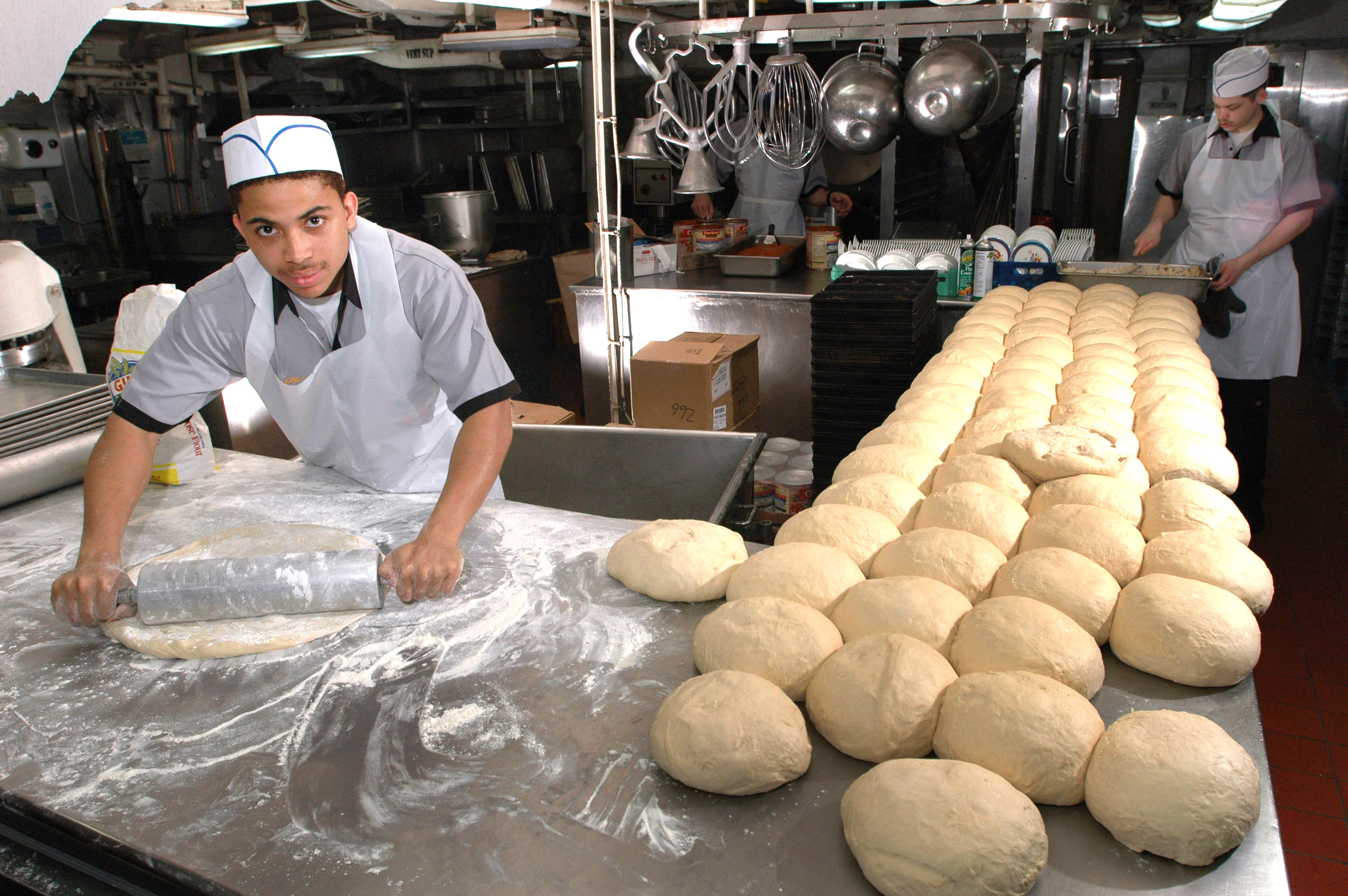 Pacific Ocean (June 2, 2006) - Culinary Specialist Seaman D'arco Tolliver assigned aboard the USS Kitty Hawk (CV 63), rolls pizza dough in preparation of a celebration for 273 recently promoted Sailors. Kitty Hawk's bakery produces more than 3,000 dinner rolls, 3,000 cookies, 2,000 pies and 900 loaves of bread daily for a crew of 5,300. Currently under way in the 7th Fleet area of responsibility (AOR), Kitty Hawk demonstrates power projection and sea control as the U.S. Navy's only permanently forward-deployed aircraft Carrier. U.S. Navy photo by Photographer's Mate Airman Adam York (RELEASED)